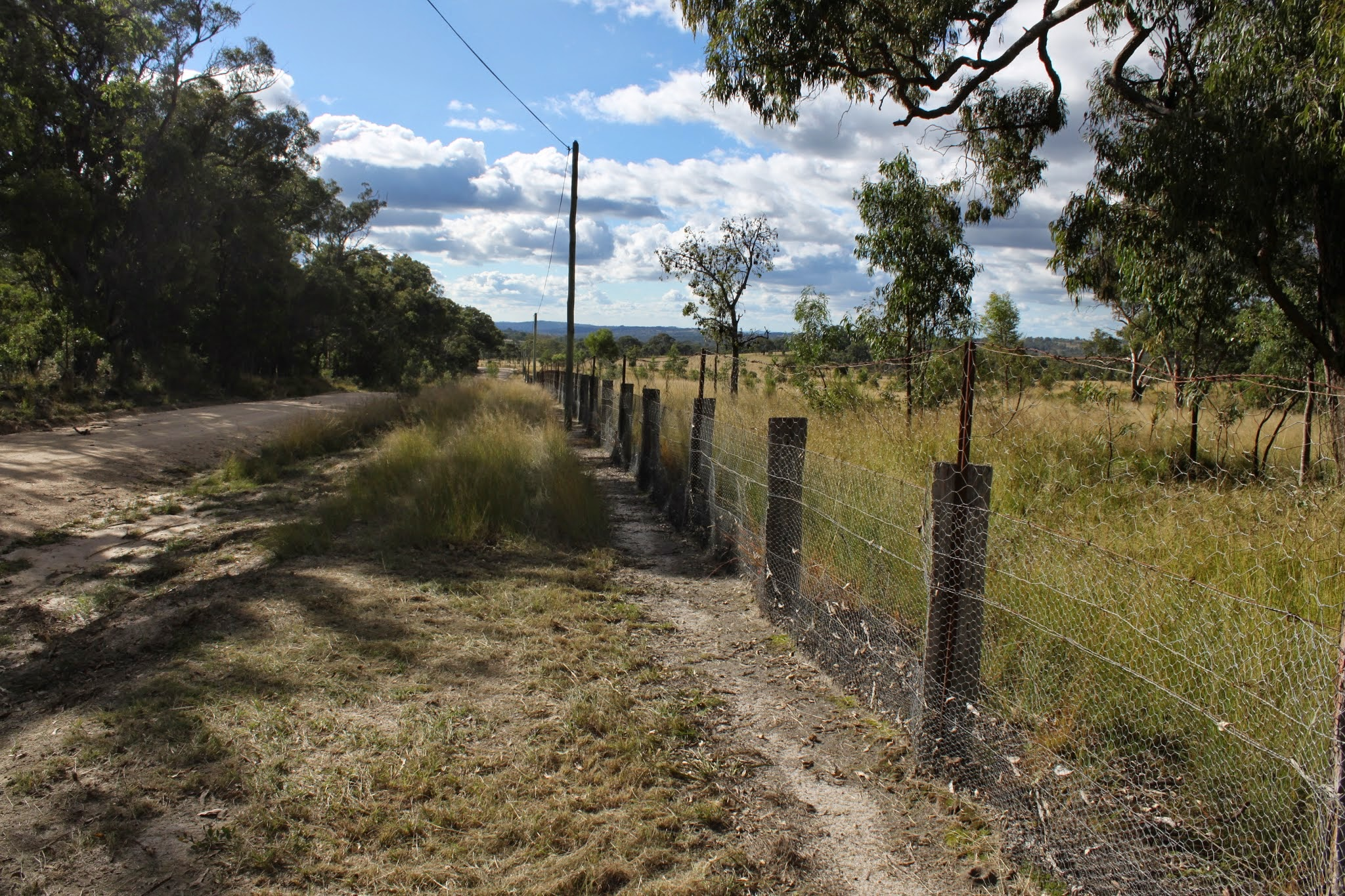 Looking at the Rabbit Fence at Sorrento Lane